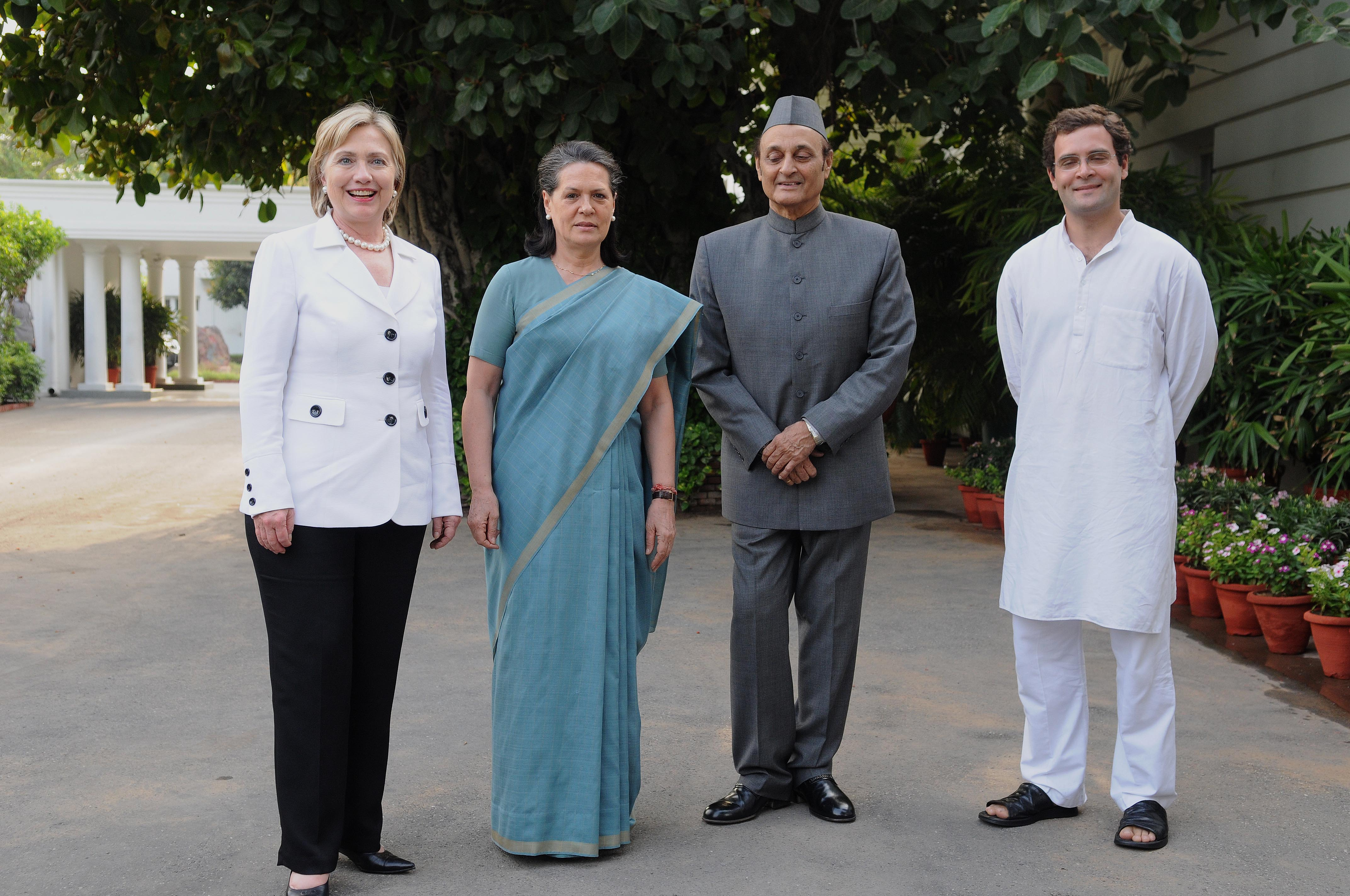 U.S. Secretary of State Hillary Rodham Clinton, President of the Congress Party Sonia Gandhi, former Union Minister Karan Singh and All-India Congress Committee General Secretary Rahul Gandhi meet in New Delhi, India July 20, 2009. [State Department photo]